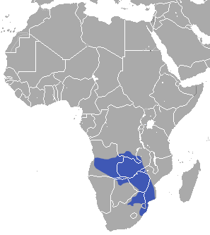 Swamp Musk Shrew (Crocidura mariquensis) range